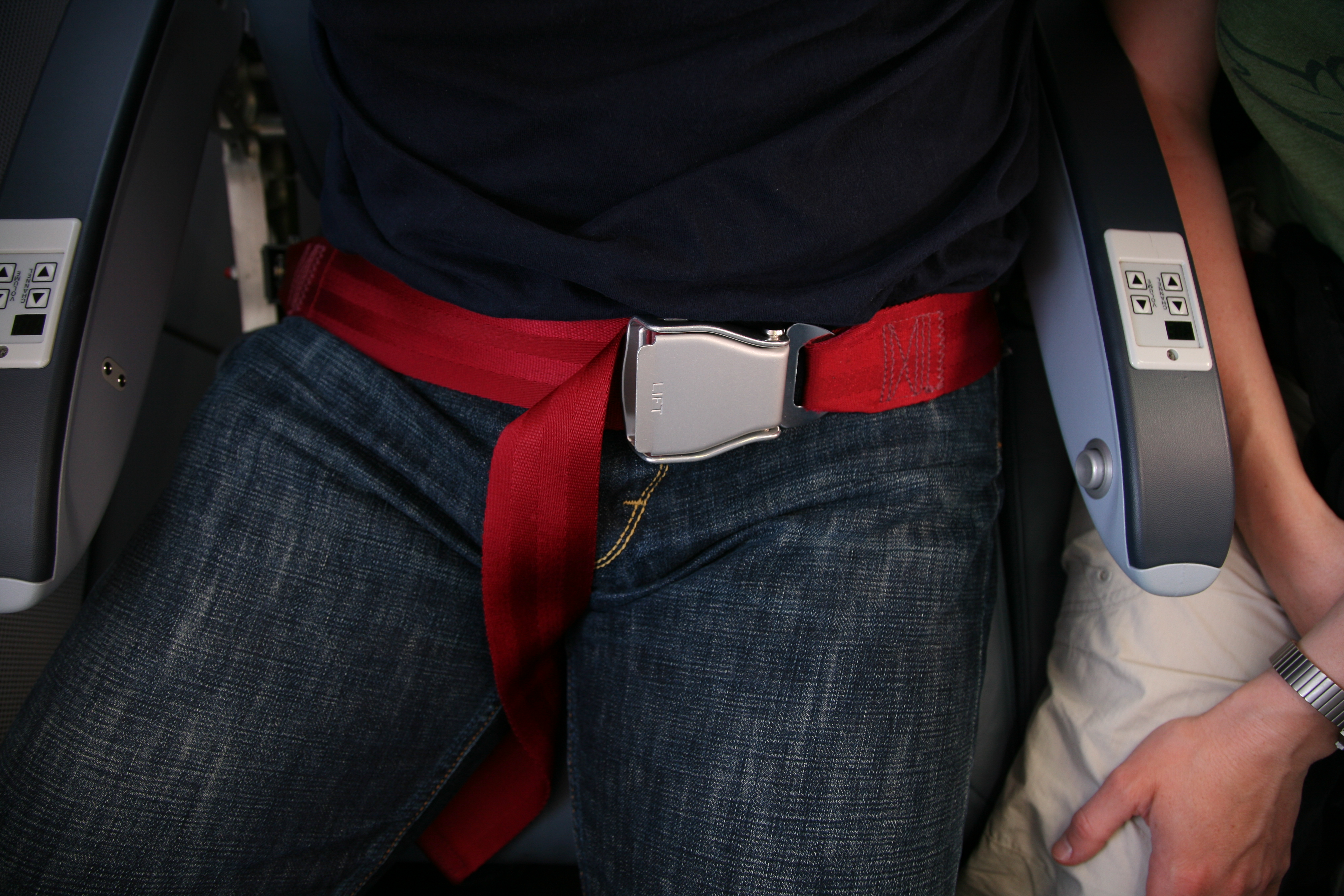 Seat belt on an airplane, buckled-up